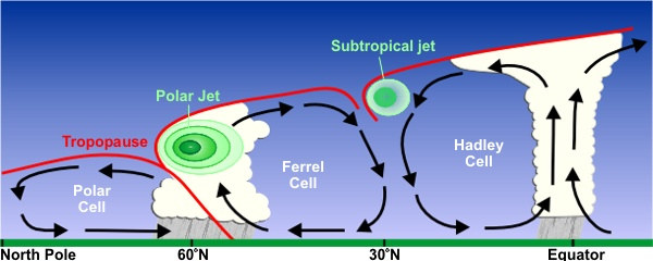 Cross section of the two main jet streams, by latitude